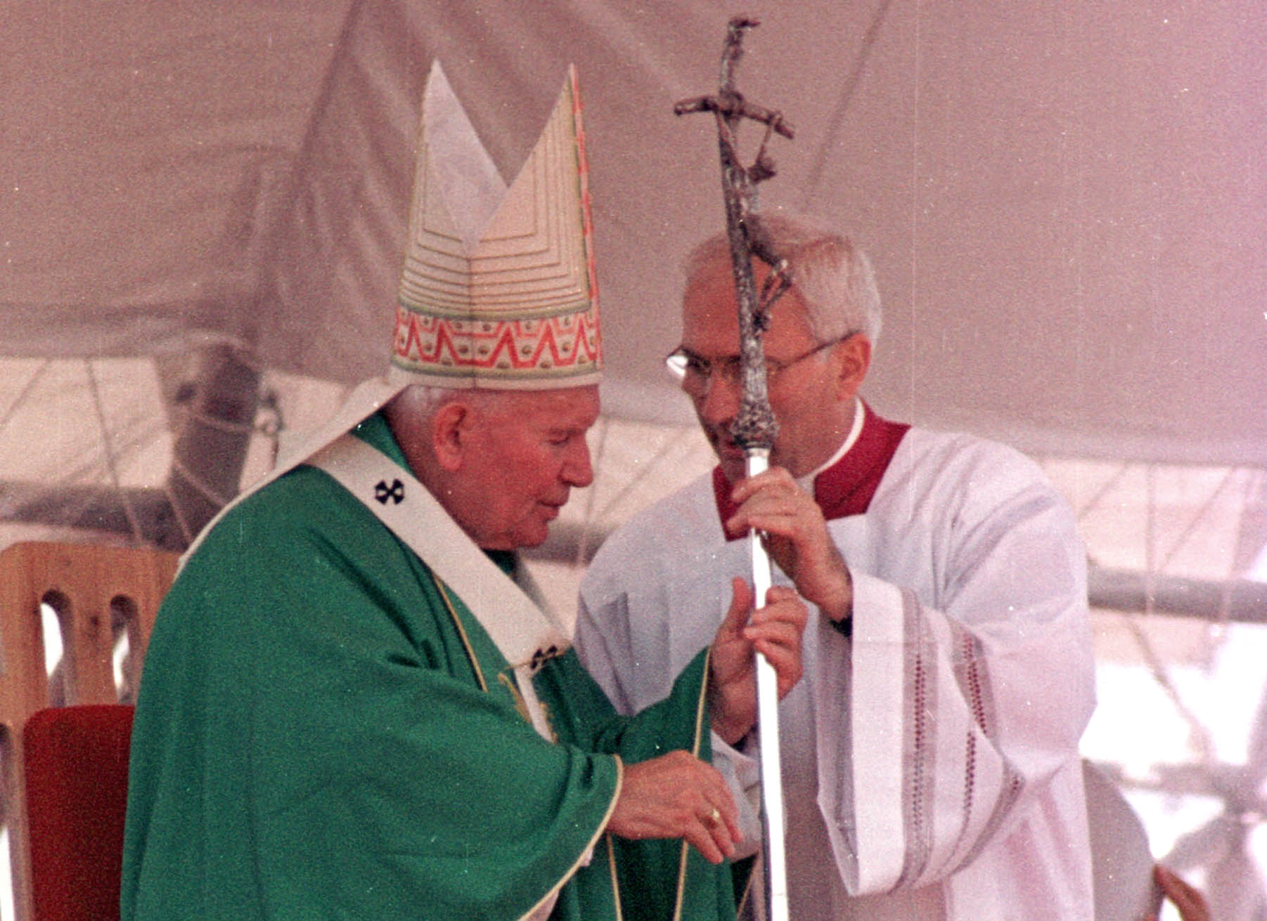 Pope John Paul II in Brazil.